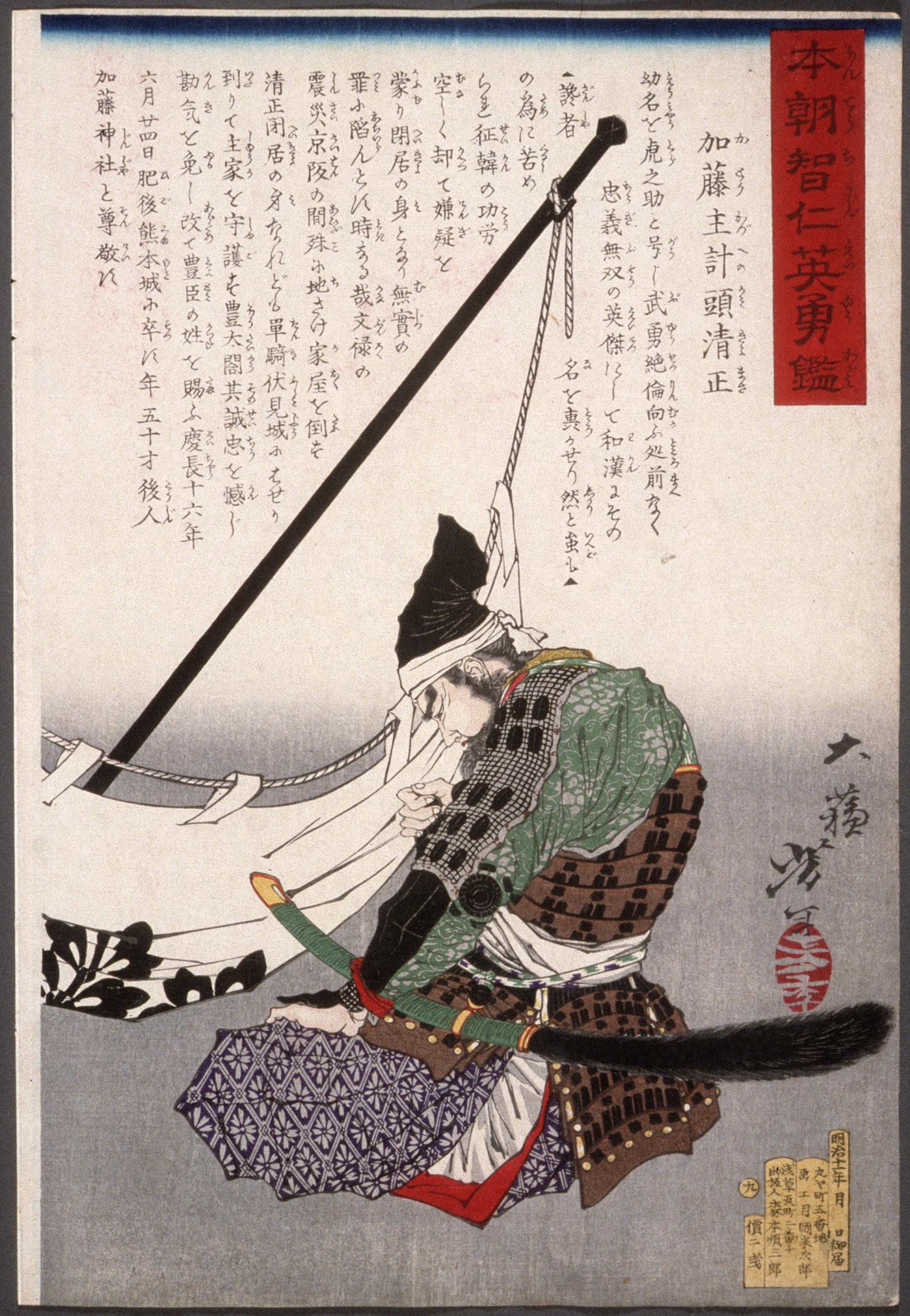 Japan, 1878 Series: A Mirror of Wisdom, Benevolence, and Valor in Japan Prints; woodcuts Color woodblock print Herbert R. Cole Collection (M.84.31.269) Japanese Art